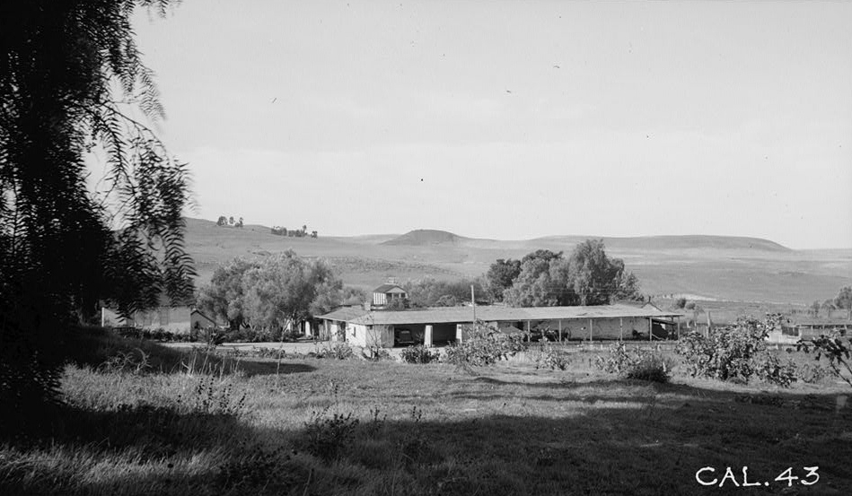 View from northwest — of the Rancho Guajome landscape and structures, in Southern California. Including the early 1850s Rancho Guajome Adobe (residence compound) — located near Vista, San Diego County, California. A National Historic Landmark, Historic house museum, and on the National Register of Historic Places. Image (1936) courtesy of the federal HABS—Historic American Buildings Survey of California.